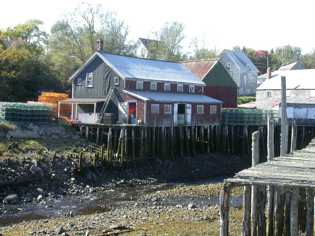 Low tide in historic Seal Cove, Grand Manan, New Brunsick